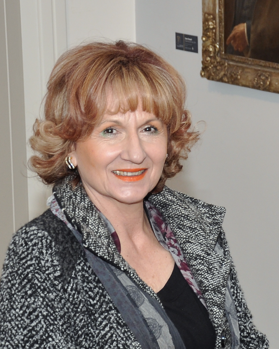 Photo of Danica Otasevic Српски (ћирилица): Фотографија Данице Оташевић